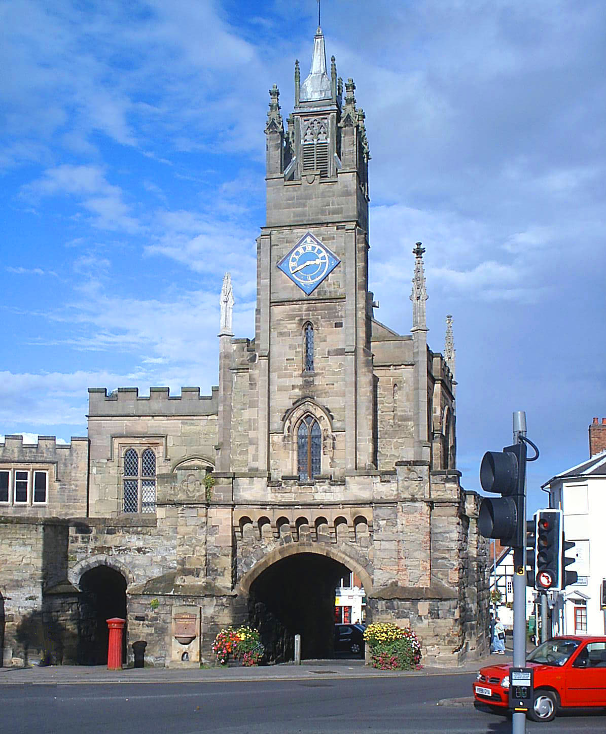 East Gate, Warwick, England. This and the West Gate are the only remnants of Warwick's former medieval town walls.